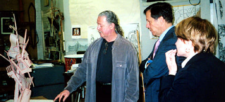 NEA Chairman Dana Gioia and Representative Louise Slaughter tour the studio of world-renowned sculptor Albert Paley in Rochester, NY.